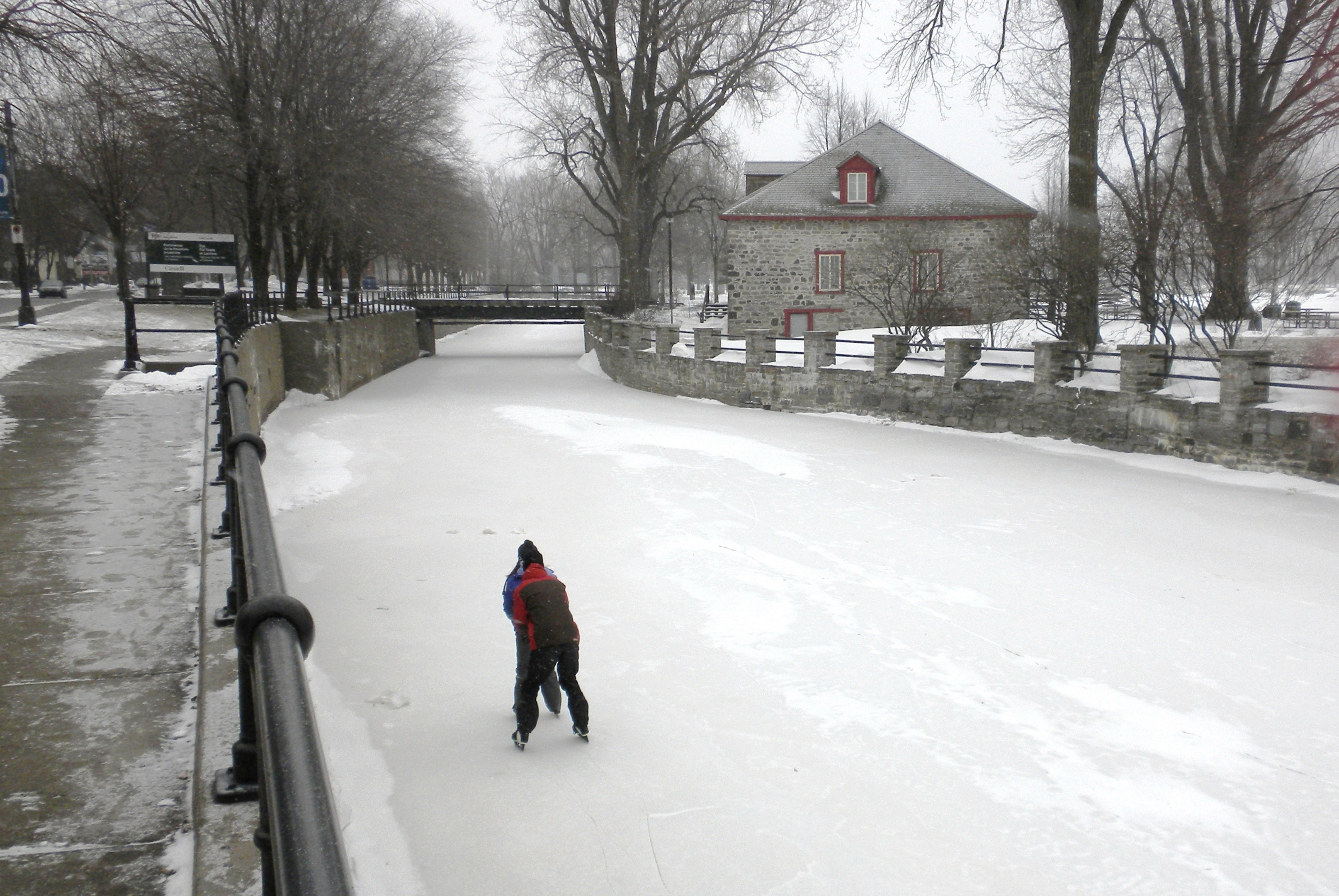 Two people skate on the Lachine Canal once it froze during winter.